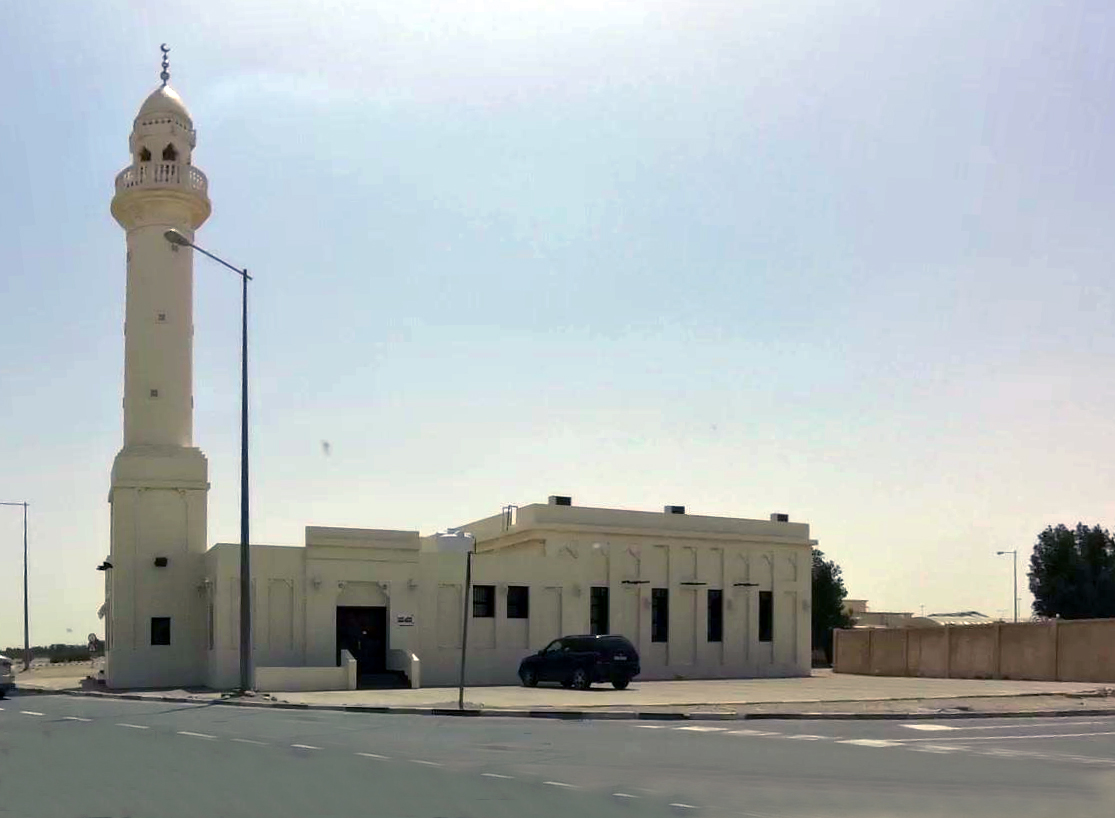 Large mosque in Umm Salal Ali. View from a roundabout.